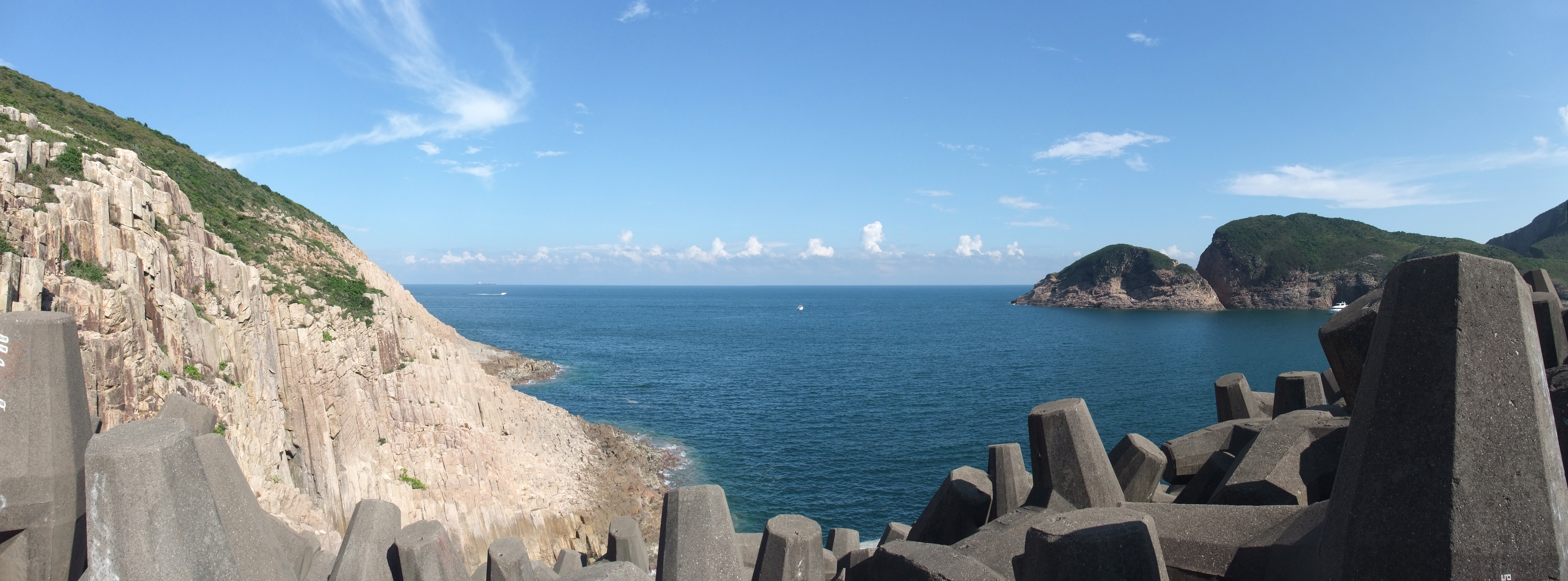 Panoramic photo of hexagonal volcanic tuffs at East Dam of High Island Reservoir, combined from 2779257101, 2779249267, 2779241903 and 2780091476